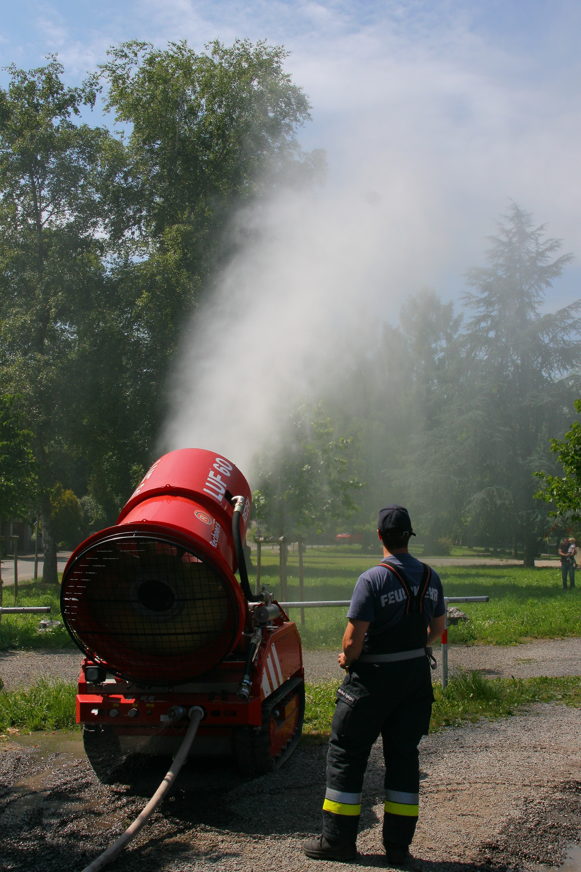 Firefighting Support Vehicle type LUF 60